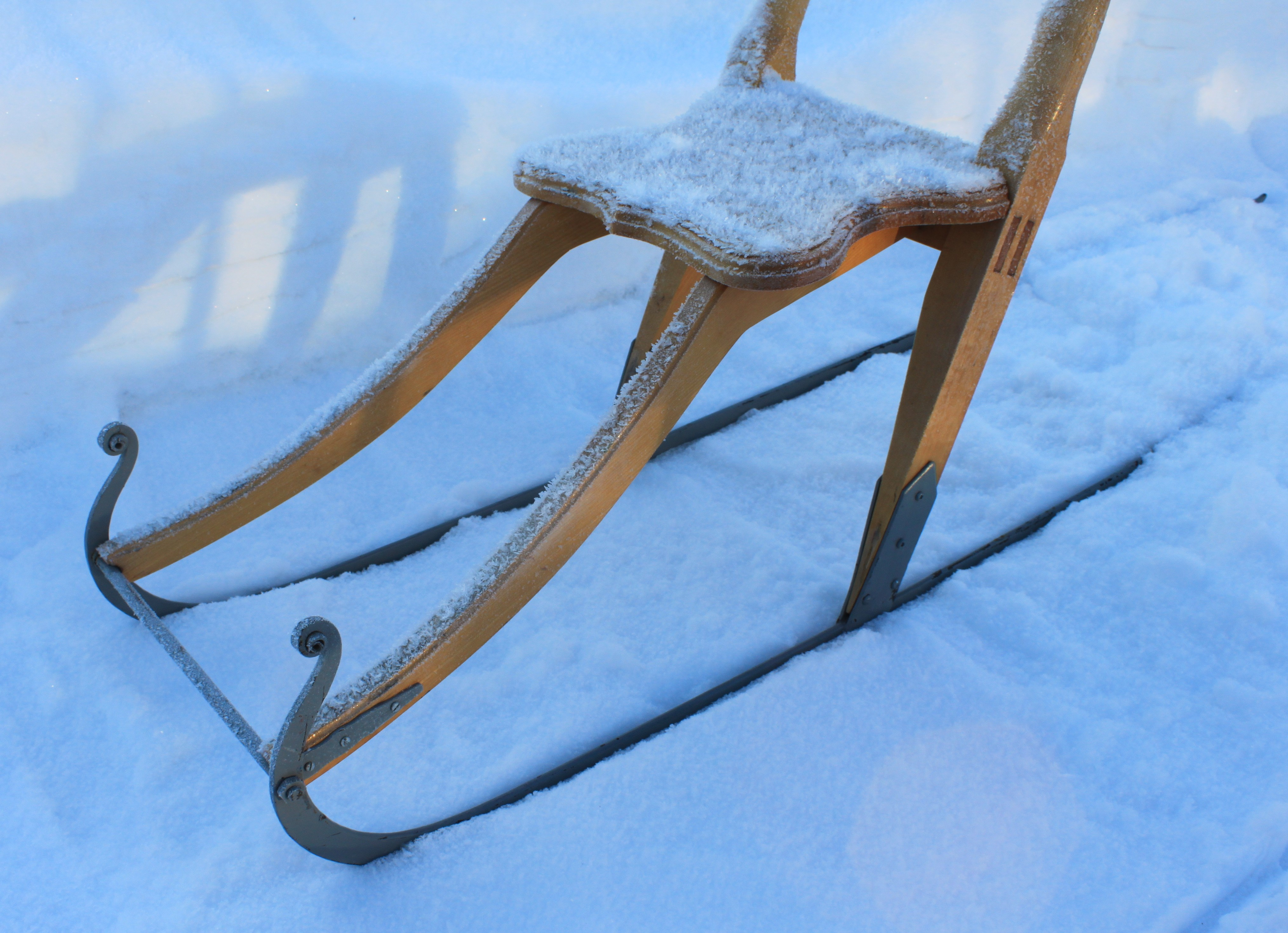 Swedish kicksled from Laknäs